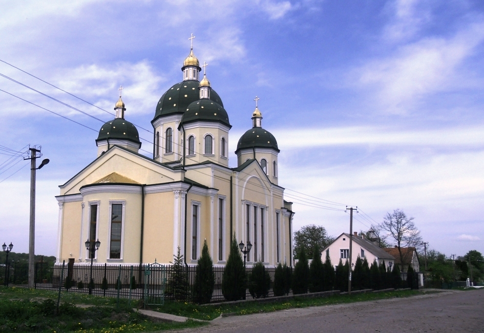 Church of the Holy Communion. Hradivka, Gorodok district, Lviv region.